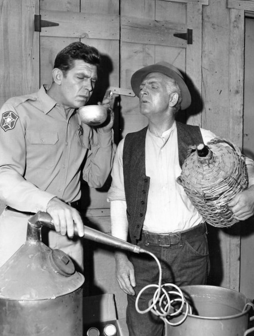 Photo of Andy Griffith and Everett Sloane from the television program The Andy Griffith Show. In this episode, Andy investigates a barn fire and finds a still.